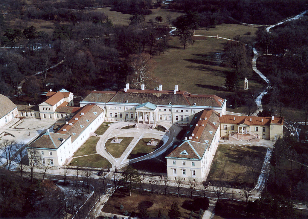 Palace - Csákvár - Hungary - Europe